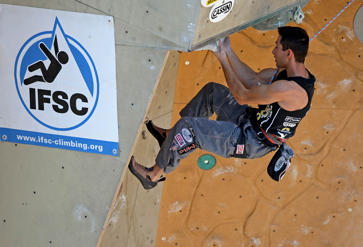 Ramon Puigblanque(ESP), winner Arco Rock Master 2007